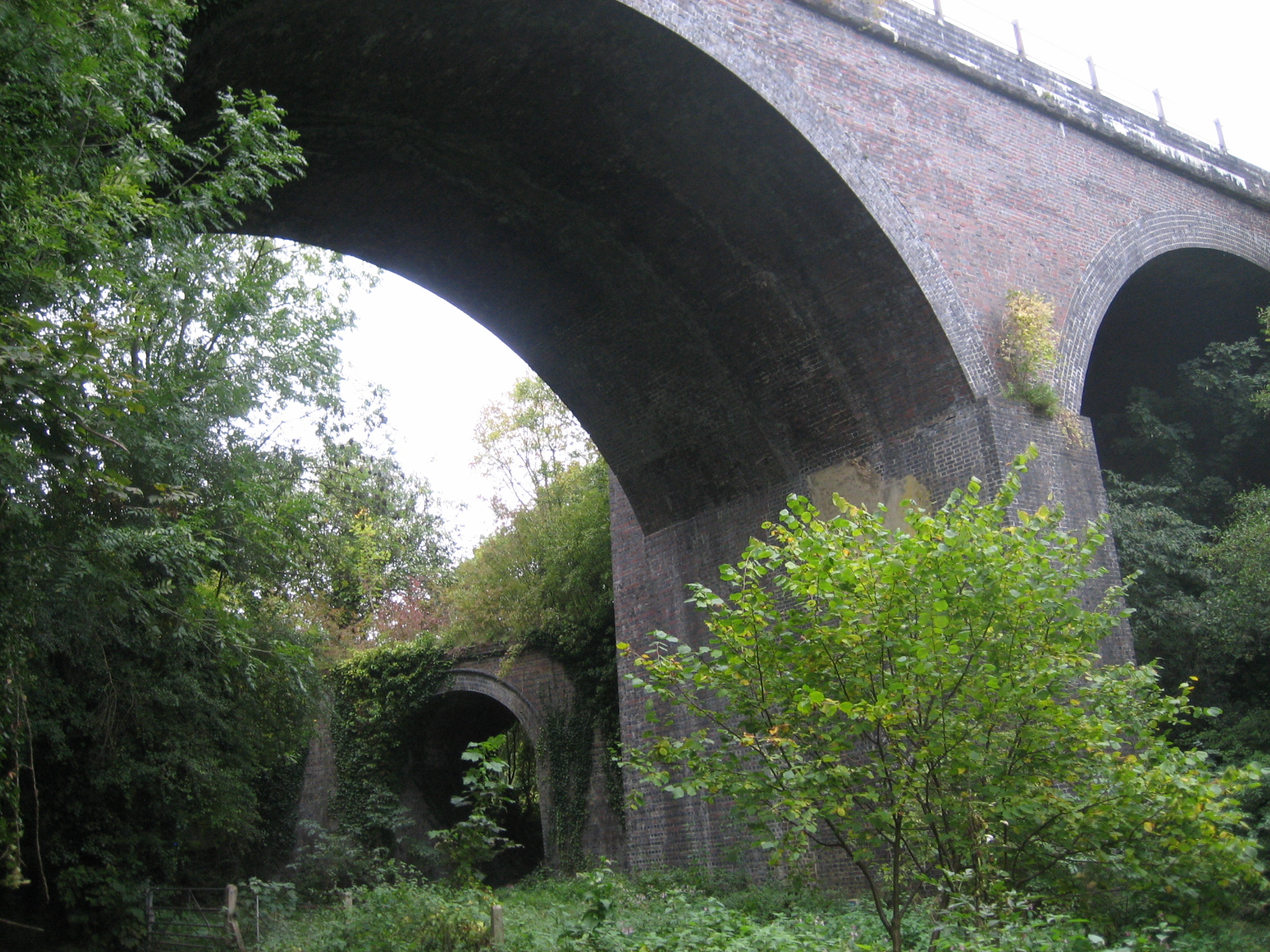 The GWR Limpley Stoke to Camerton viaduct at Midford, left, passing beneath the much larger Somerset and Dorset Joint Railway viaduct. Taken 30 September 2007.